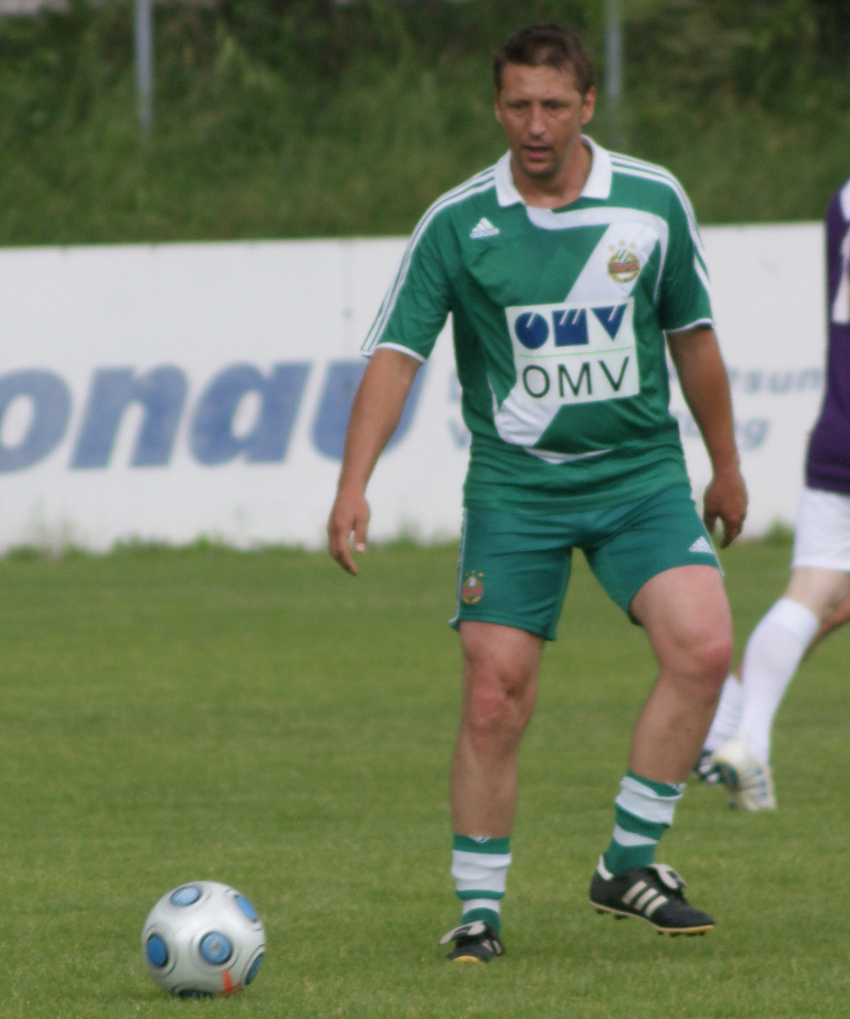 Former Austrian football player Zoran Barisic